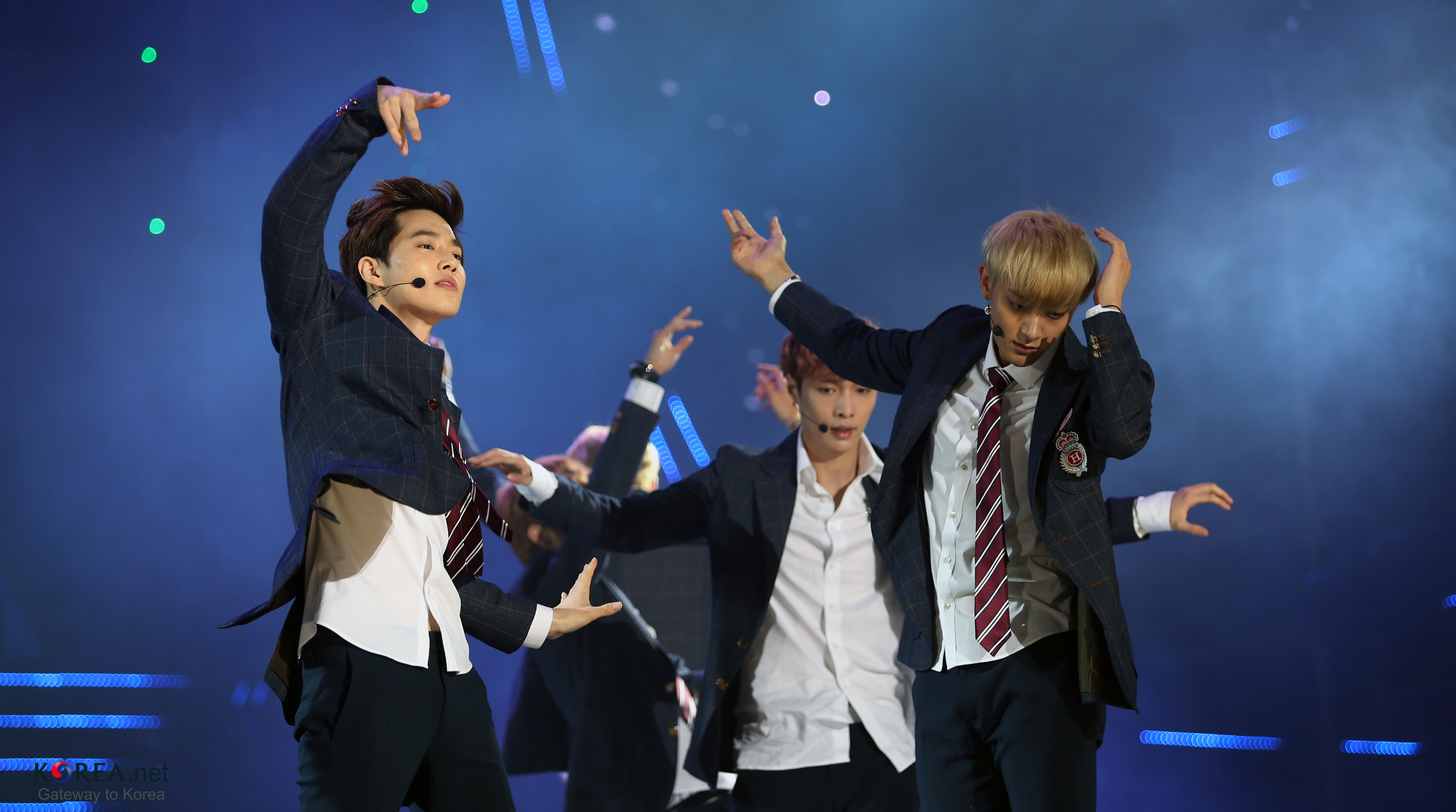 2013 K-POP World Festival in Changwon October 20, 2013 Changwon-si, Gyengsangnam-do Related Articles Cheong Wa Dae K-Pop World Festival unites global fans -English K-Pop World Festival unites global fans -中文 “2013 K-POP世界庆典” 用K-POP连结全世界 -Vietnamese Cả thế giới hội tụ tại “K-pop World Festival 2013” -日本語 「Kポップワールド・フェスティバル2013」、Kポップで世界が一つに -Deutsch „K-Pop World Festival” bringt internationale Fans zusammen -Francais Un festival mondial de la K-Pop 2013 de haute volée -Russian K-Pop World Festival объединяет фанатов со всего мира -Arabic المهرجان العالمي للبوب الكوري يوحد الجماهي Ministry of Culture, Sports and Tourism Korean Culture and Information Service ( Jeon Han 2013 제3회 K-POP 월드페스티벌 2013-10-20 경상남도, 창원시 문화체육관광부 해외문화홍보원 코리아넷 전한